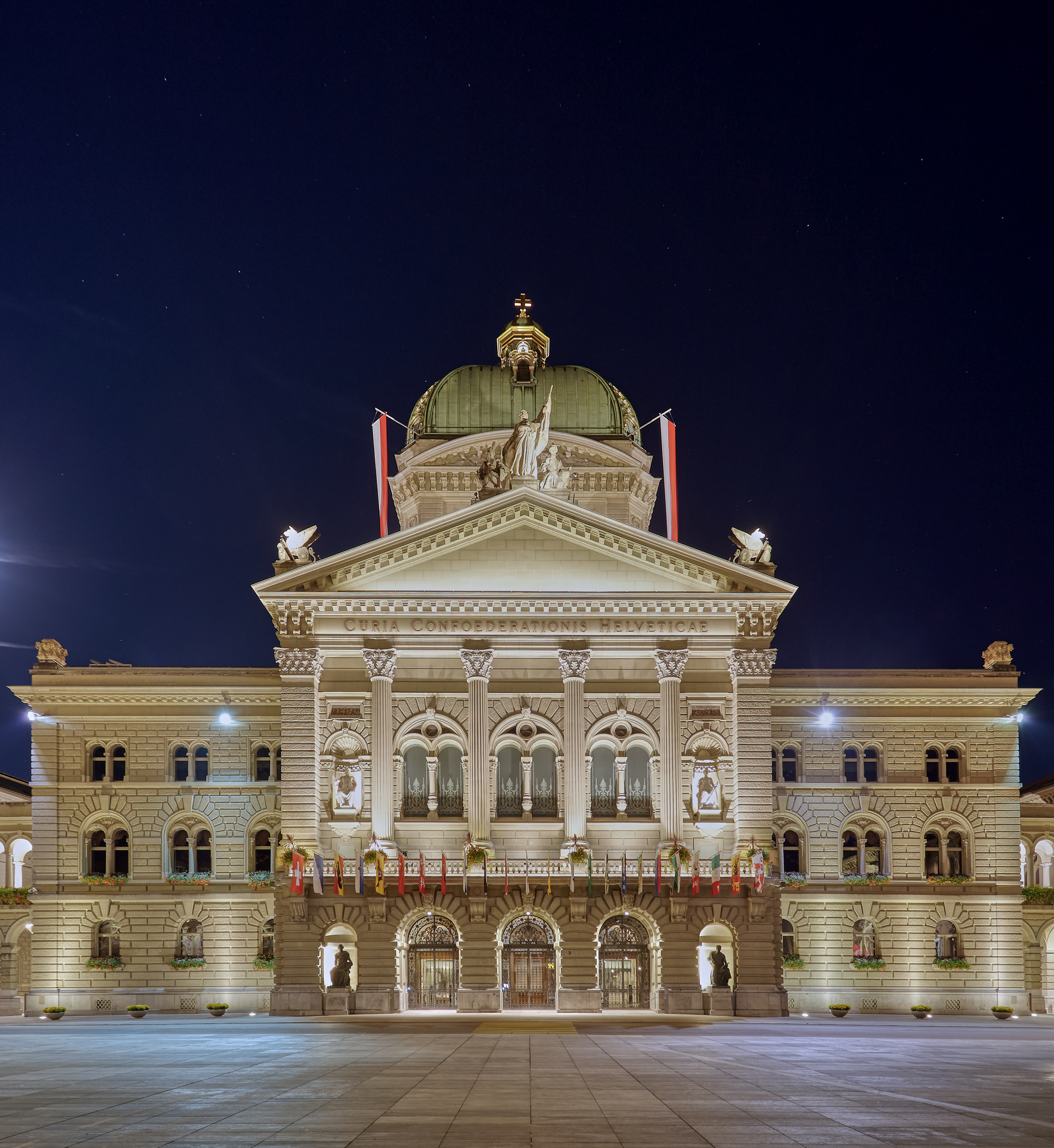 Federal Palace North Facade. Plaza view during full moon with clear night sky.